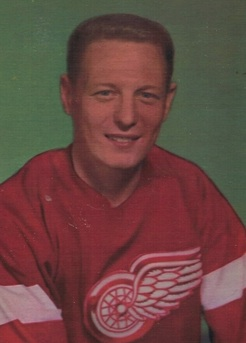 Bruce MacGregor, Detroit Red Wings Printed on Chex Cereal Boxes from 1963 to 1965 per [1] and [2]. No copyright notices are observed on the obverse or reverse of the photos.